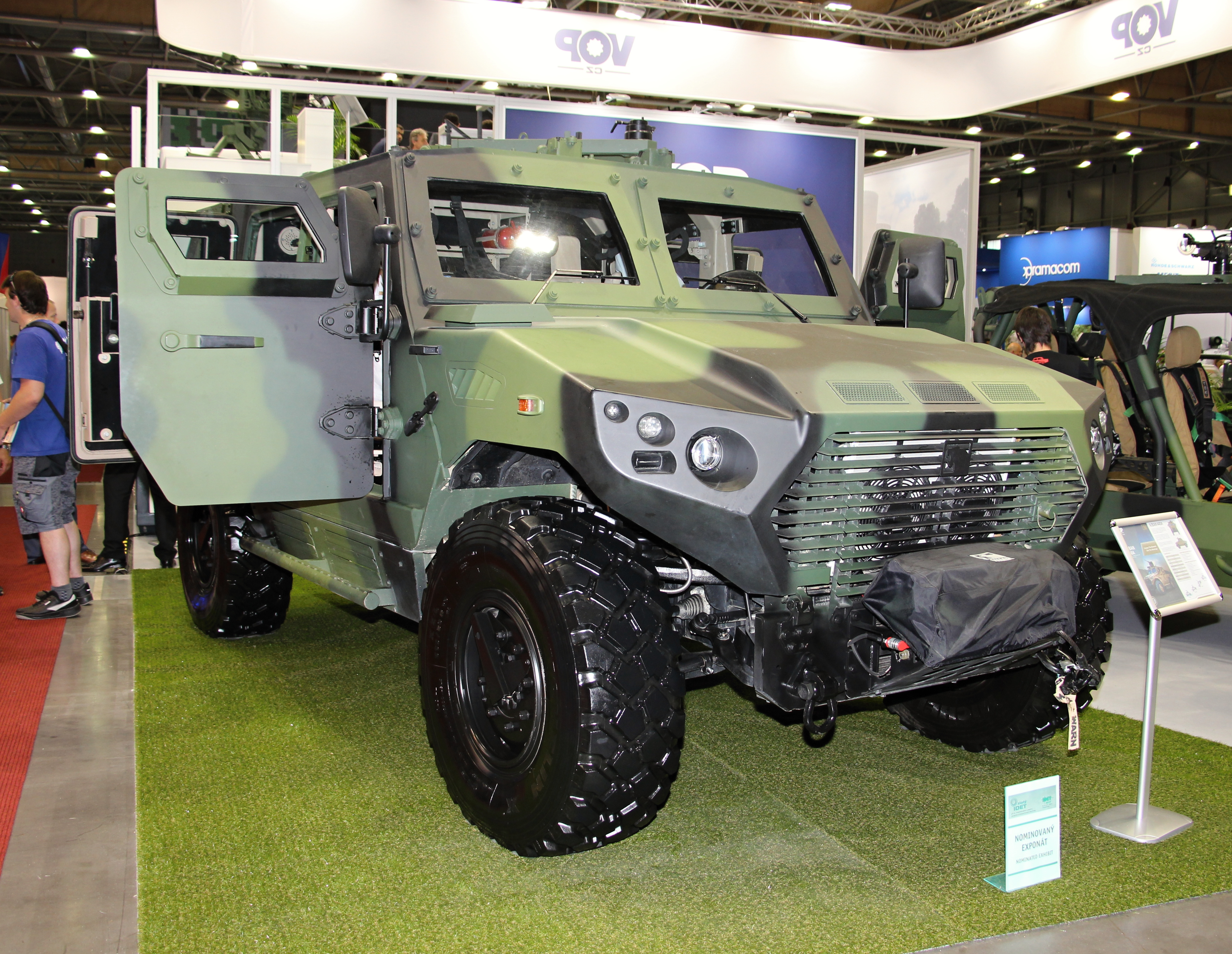 AJBAN 440A is a multi-purpose protected patrol variant of the AJBAN-class of 4x4 tactical vehicles designed and developed by NIMR Automotive. IDET 2017, Brno Exhibition Center, Czech Republic.